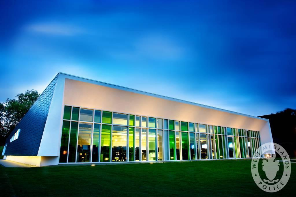 This photograph shows our Events Control Suite. (ECS) This specialist building is used to co-ordinate the policing of major events including football games, VIP visits and large scale demonstrations. The ECS can access CCTV camera feeds from across the West Midlands force area and has computer equipment bespoke to various partner organisations.